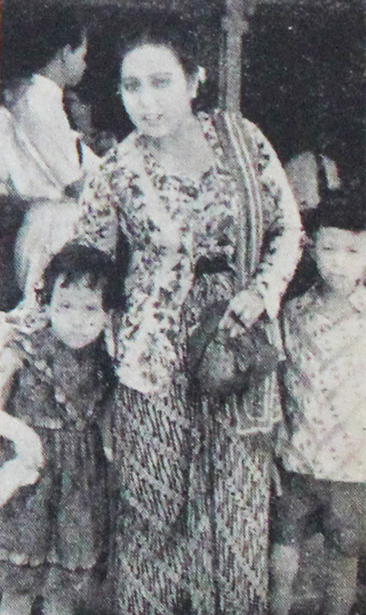 Elly Yunara with two of her children